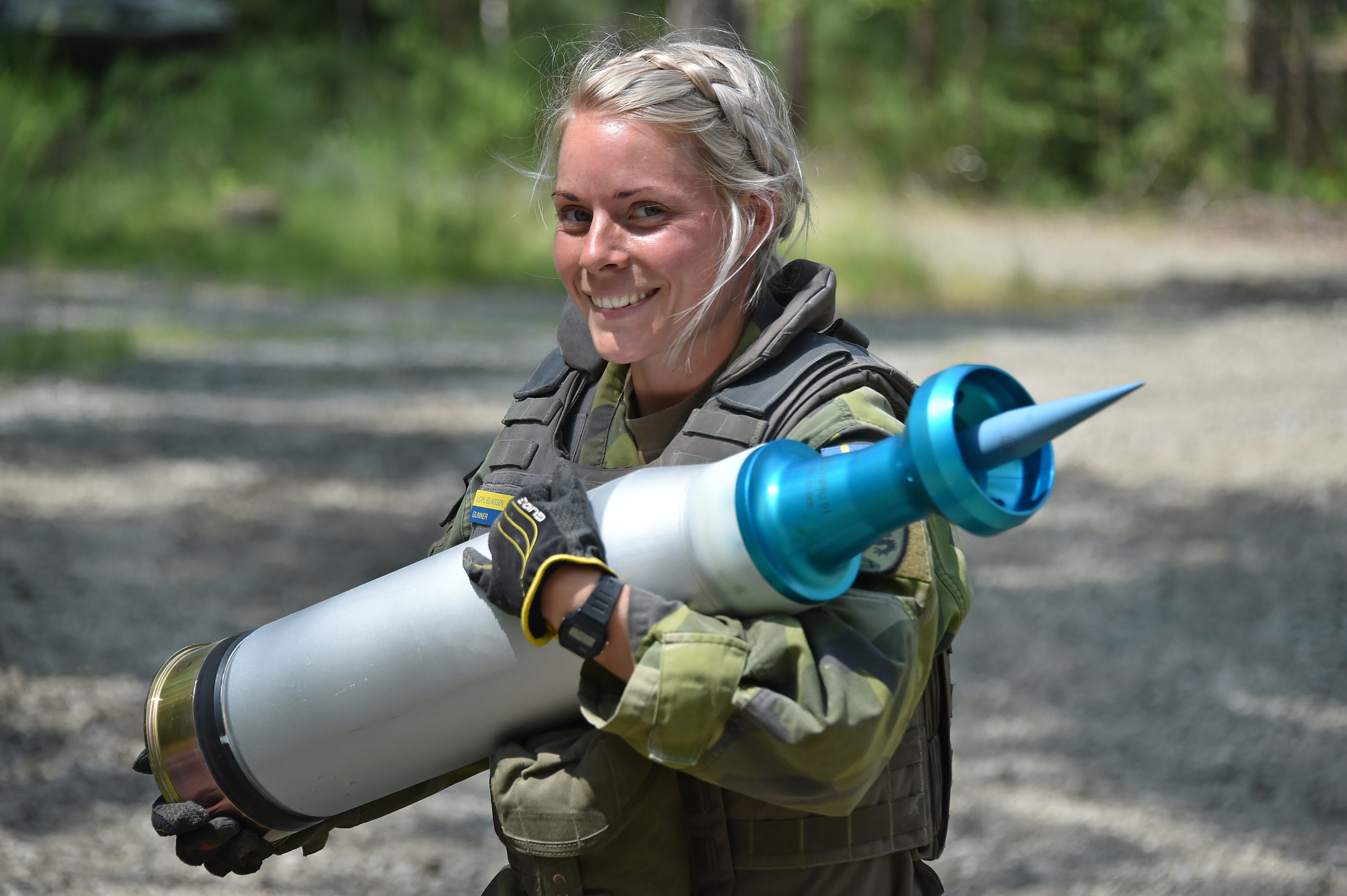 A Swedish soldier with the Wartofta Tank Company, Skaraborg Regiment carries a round during the Strong Europe Tank Challenge, June 5, 2018. U.S. Army Europe and the German Army co-host the third Strong Europe Tank Challenge at Grafenwoehr Training Area, June 3 – 8, 2018. The Strong Europe Tank Challenge is an annual training event designed to give participating nations a dynamic, productive and fun environment in which to foster military partnerships, form Soldier-level relationships, and share tactics, techniques and procedures. (U.S. Army photo by Gertrud Zach)